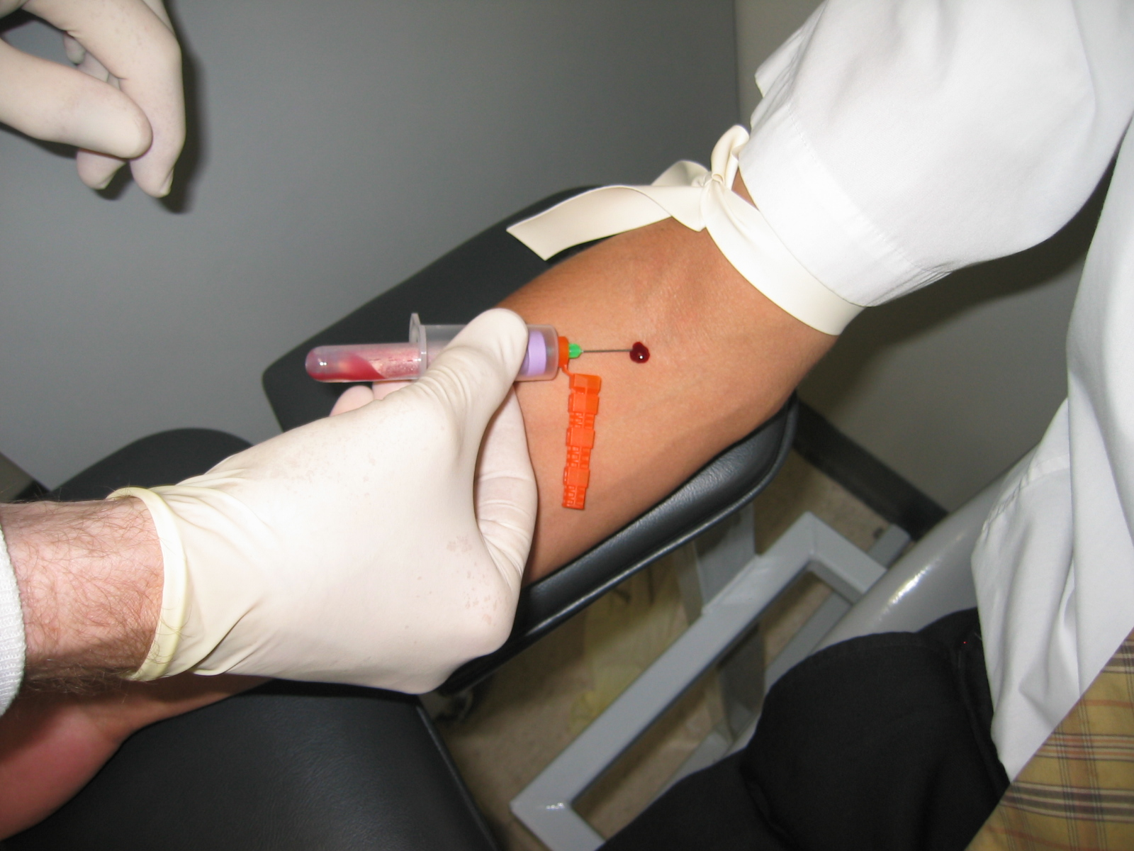 Arm venipuncture fililng a purple top vacutainer.